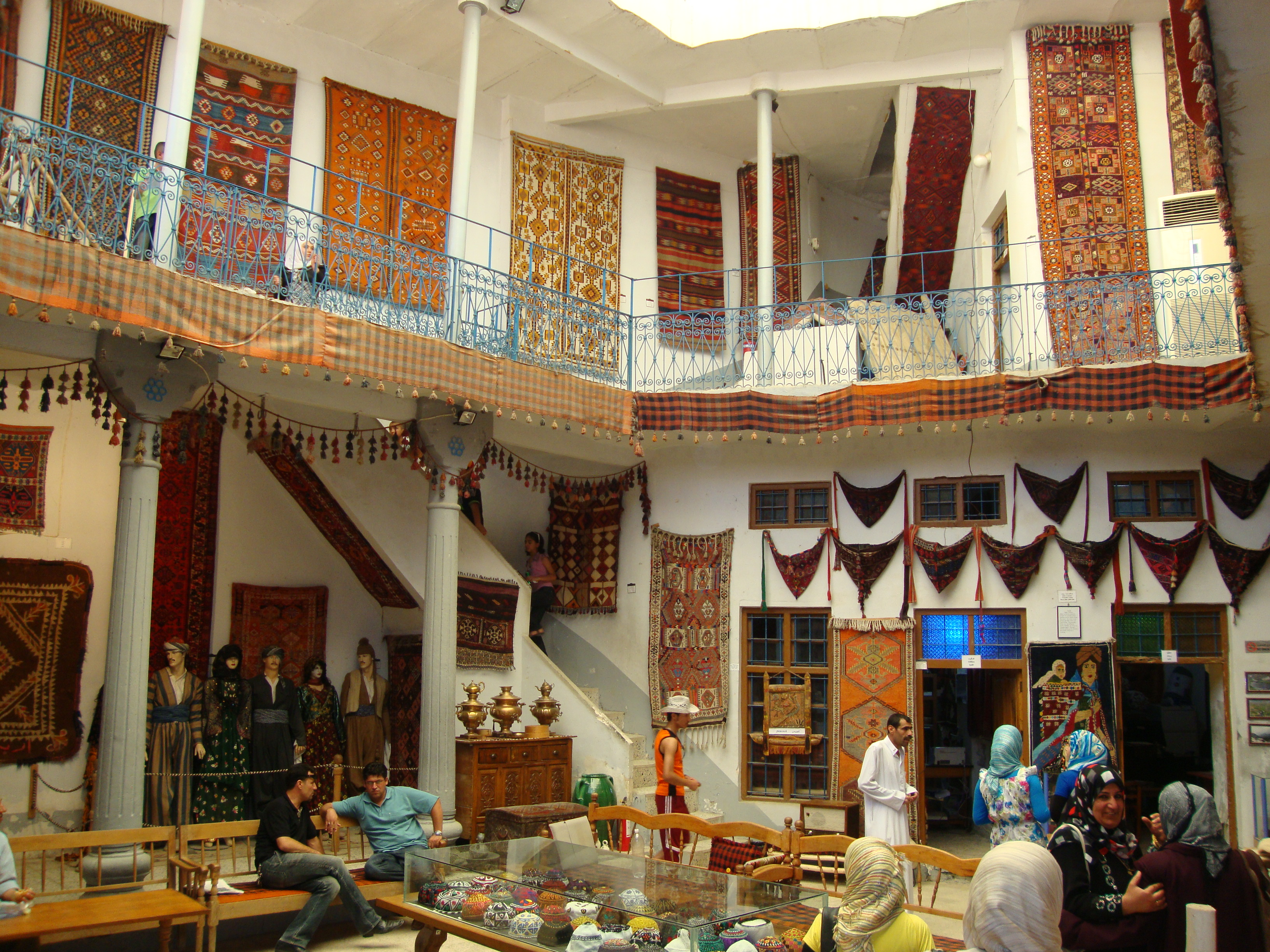 It's a textile museum in Hewler Citadel